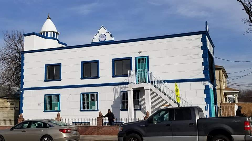 Satsang Centre at West Hartford, Connecticut, USA